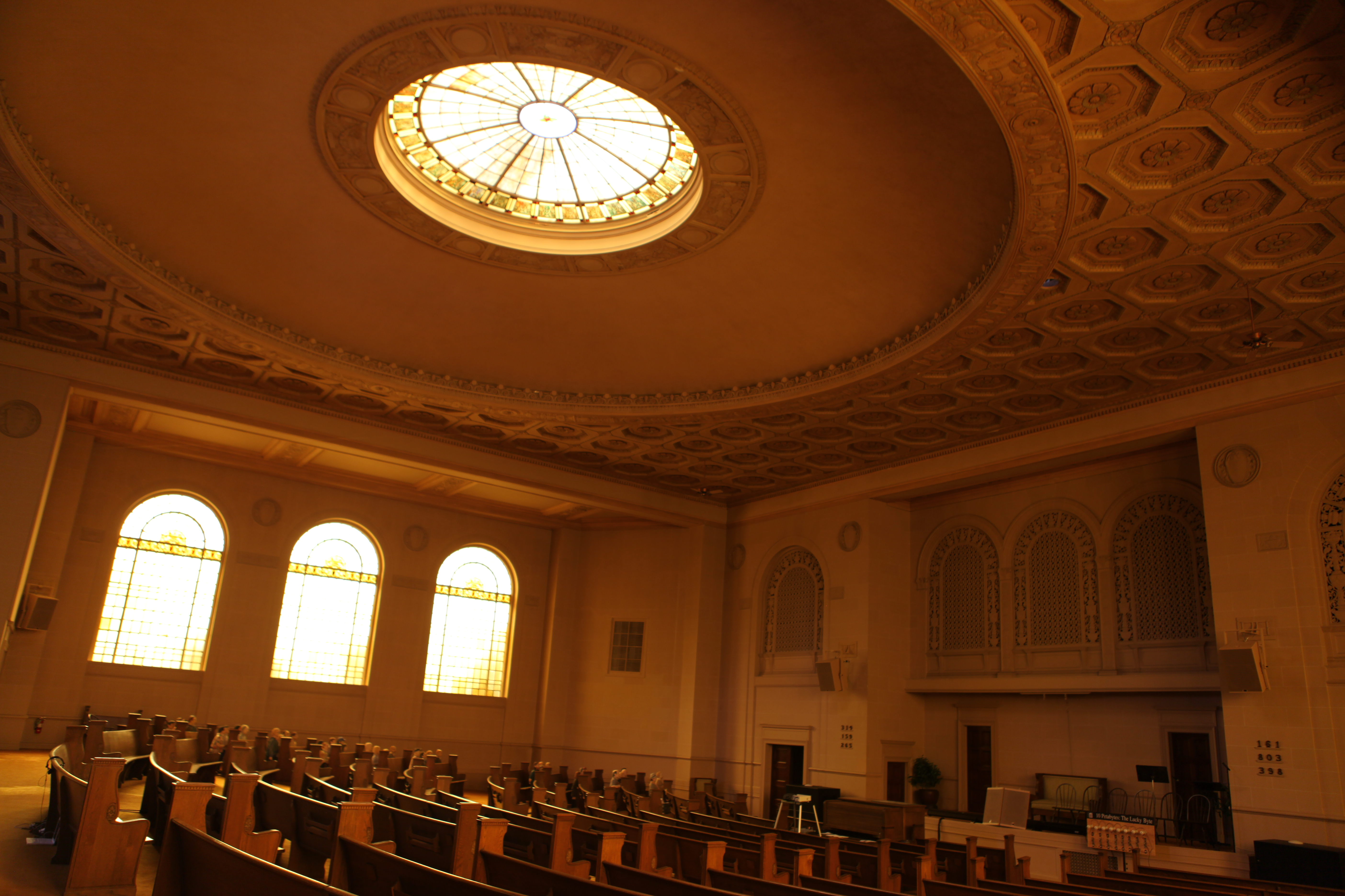 IMG_4998 The main hall at Internet Archive (2013)